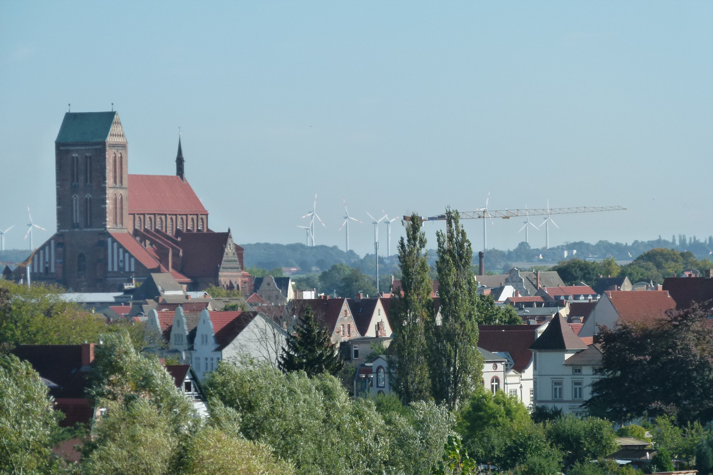 The town of Wismar, as seen from Hochschule Wismar, with St. Nicholas Church and windmills in background